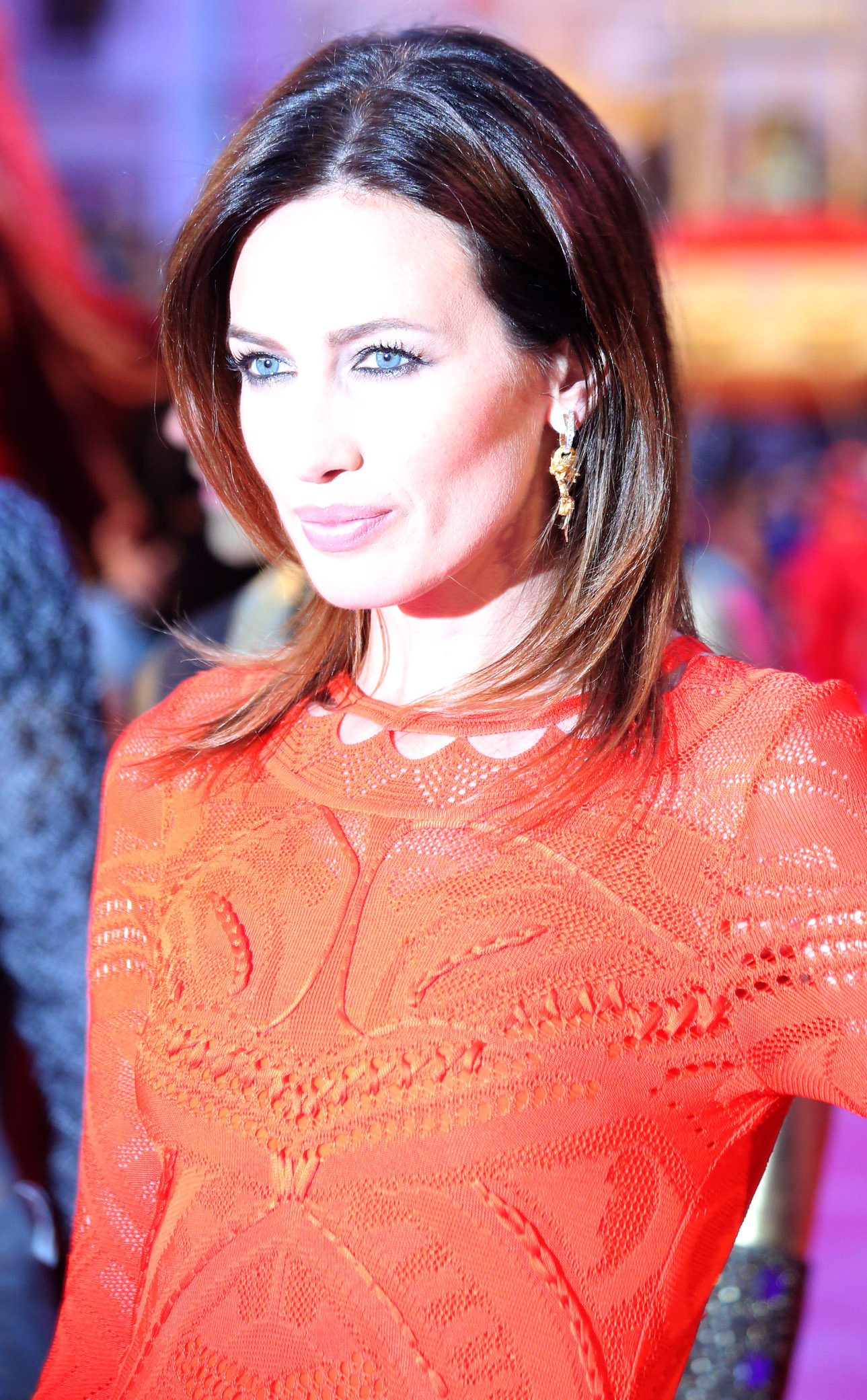 Nieves Álvarez on the 'magenta carpet' at Life Ball 2013 at the square in front of the city hall of Vienna, Vienna, Austria.